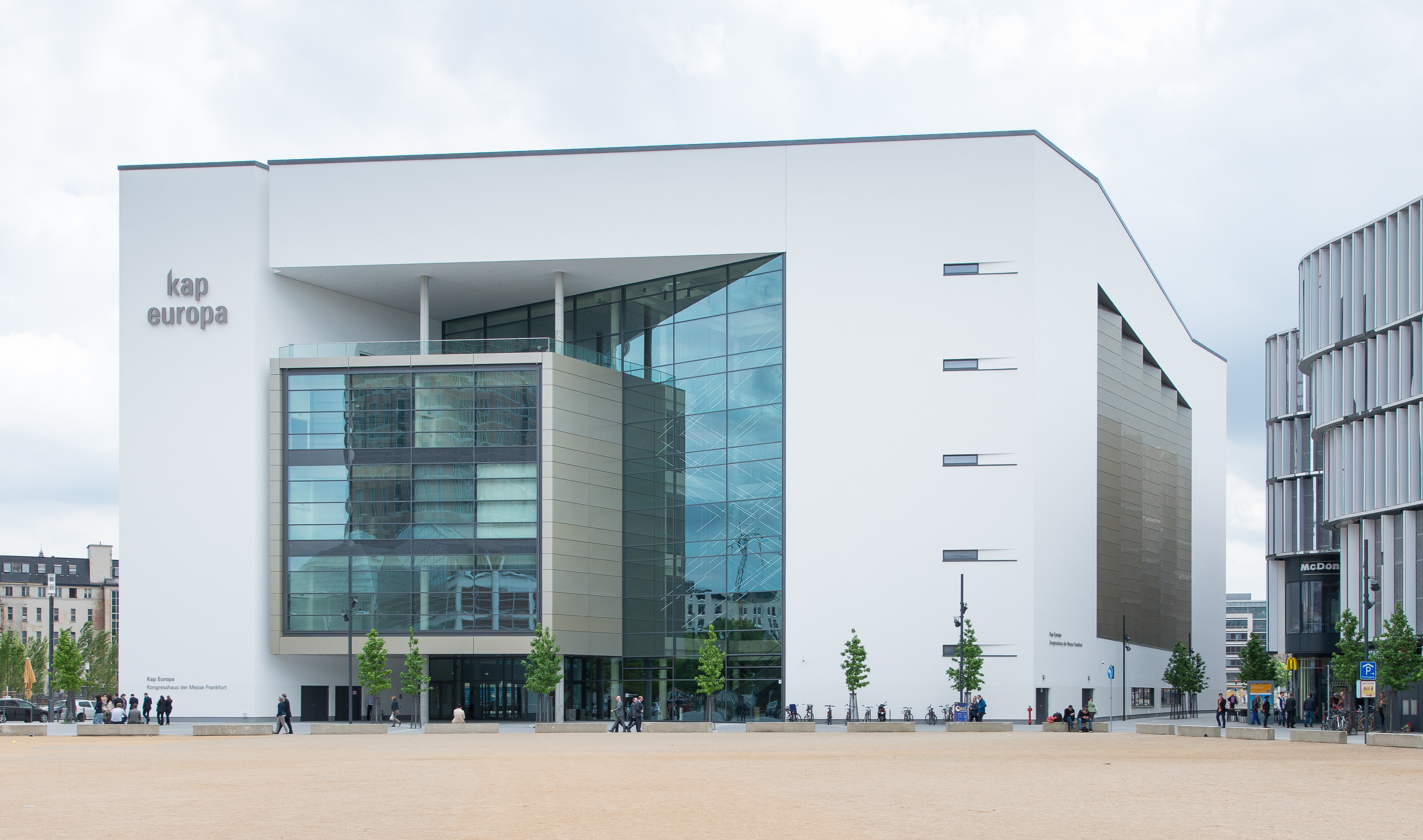 Frankfurt am Main, Congress Center 'Kap Europa' (May 2014). Part of the Skyline Plaza construction project.